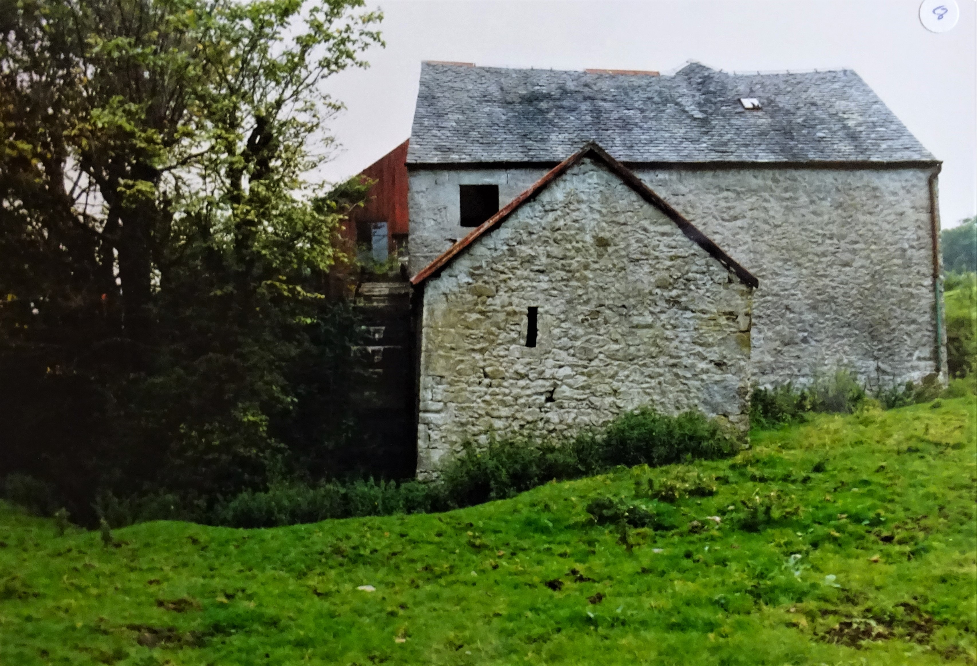 Coldstream Mill, Beith, North Ayrshire. The old mill buildings & waterwheel. On of the last traditional mills in Scotland when it closed circa 1995.